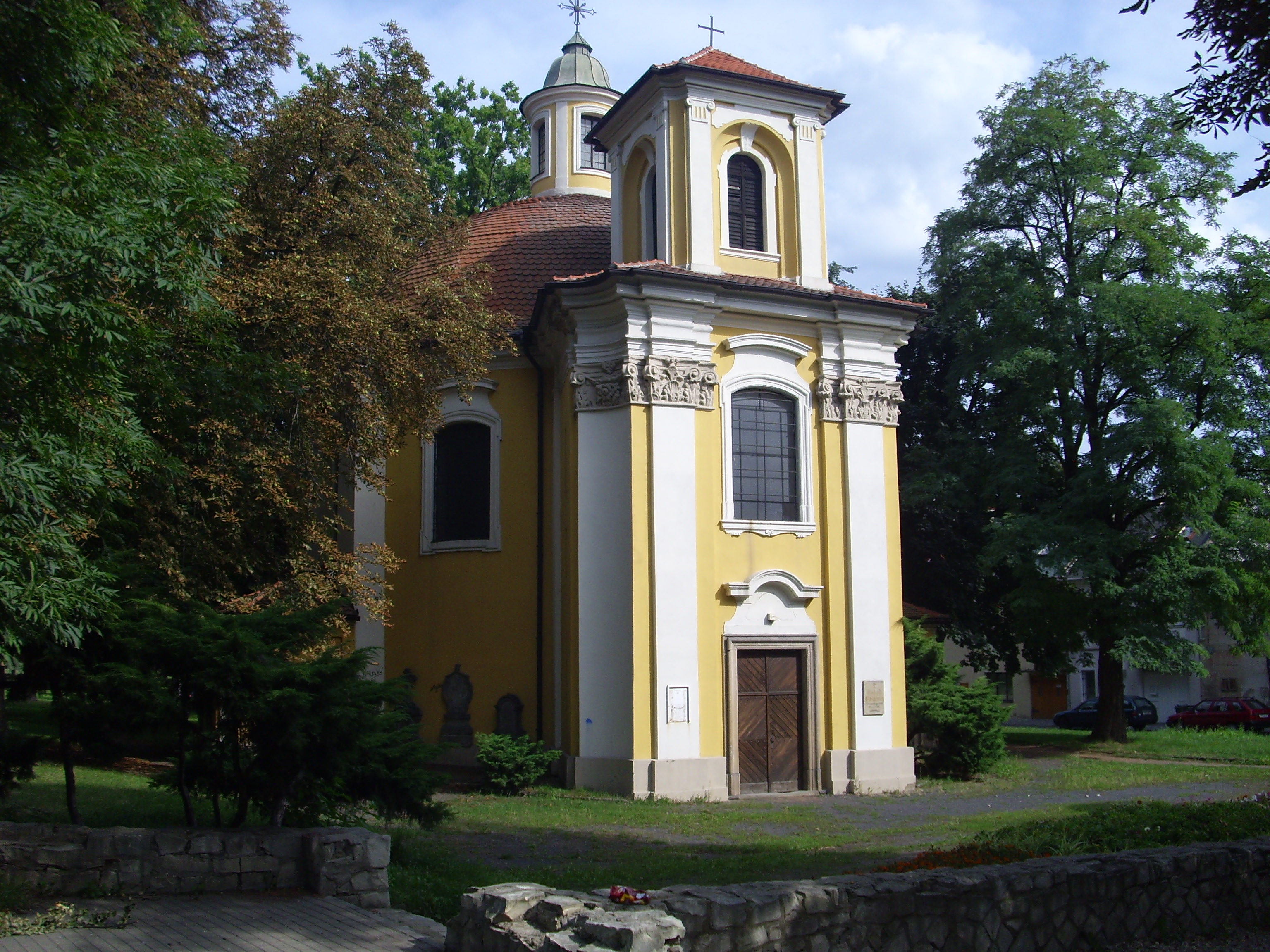 Front side of Church of Saint Barbora in Duchcov, Czech Republic. The possible rest (death?) place of Giacomo Casanova.